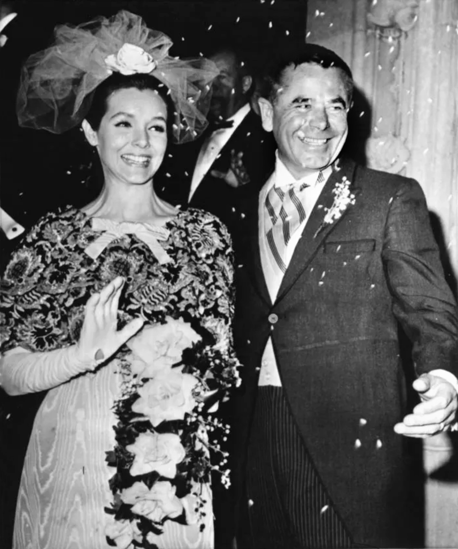 Wedding